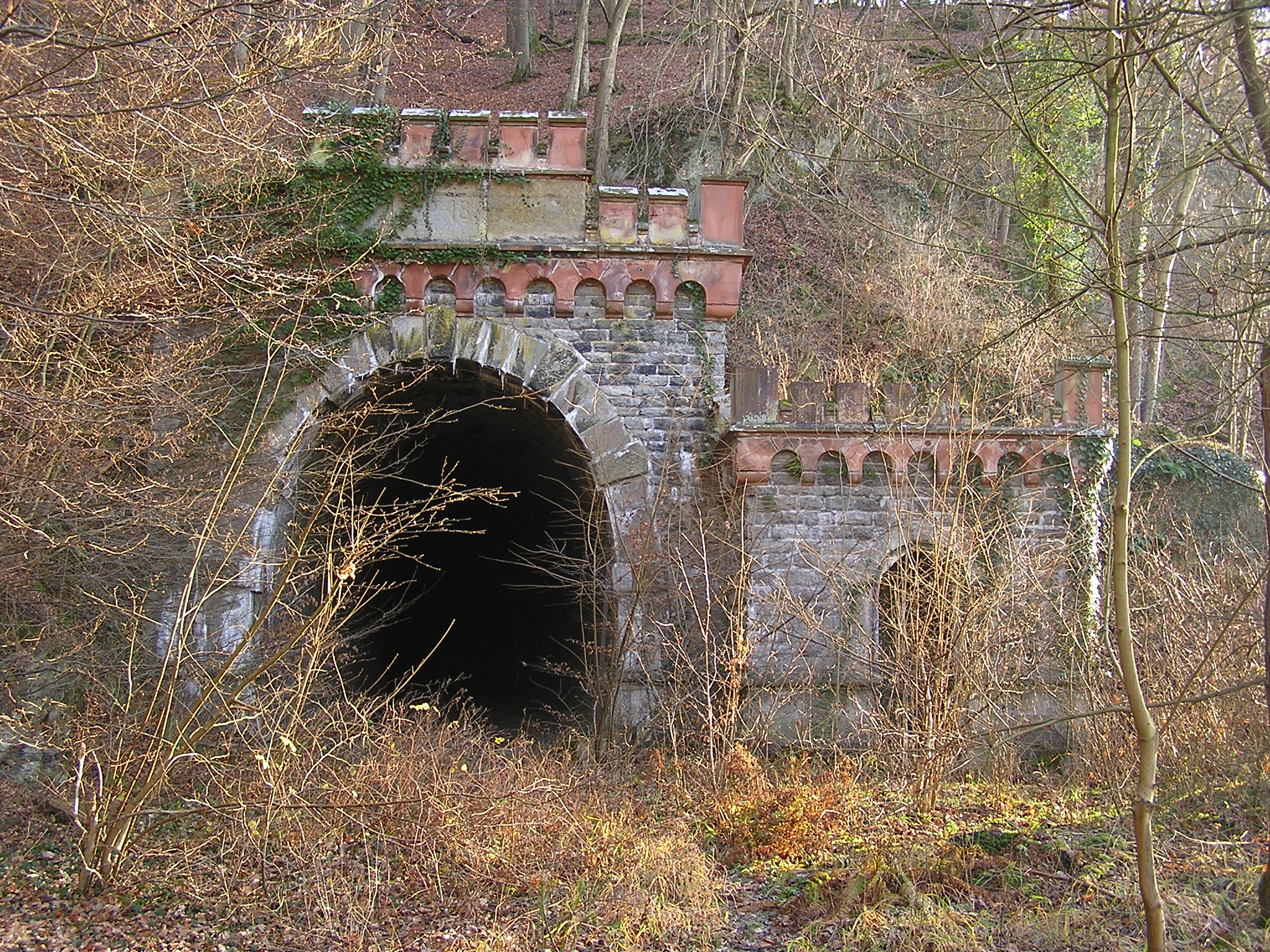 Northern portal of the Gensbergtunnel of the former Weiltalbahn